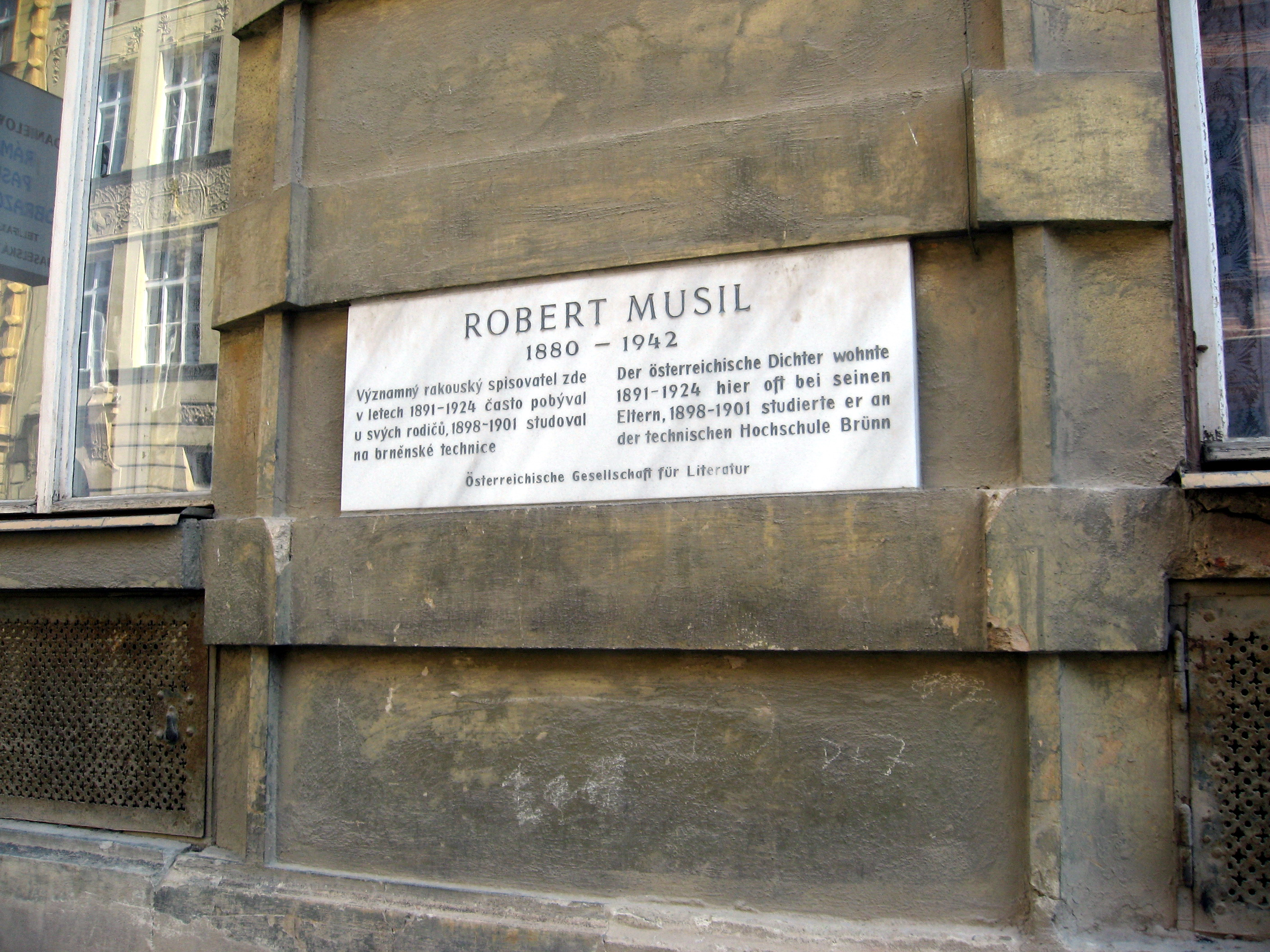 Memorial Plaque of Robert Musil